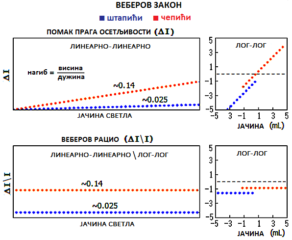 ВЕБЕРОВ ЗАКОН У ЛИНЕАРНИМ И ЛОГАРИТАМСКИМ КООРДИНАТАМА